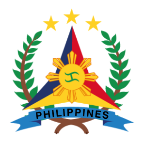 Seal of the Armed Forces of the Philippines